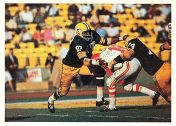 A football card from the 1986 Jeno's Pizza NFL football card stickers set of Green Bay Packers defensive linemen Willie Davis (left) and Henry Jordan (right) tackle Kansas City Chiefs quarterback Len Dawson (middle) in Super Bowl I. The card is numbered #15 in the set. The back of the card reads: THE PACKERS MAKE HISTORY Green Bay all-pros Willie Davis (87) and Henry Jordan trap Kansas City quarterback Len Dawson, as the Packers uphold the honor of the NFL by beating the Chiefs 35-10 in Super Bowl I. In the first meeting ever of teams from the NFL and AFL, Green Bay outscored Kansas City 21-0 in the second half.